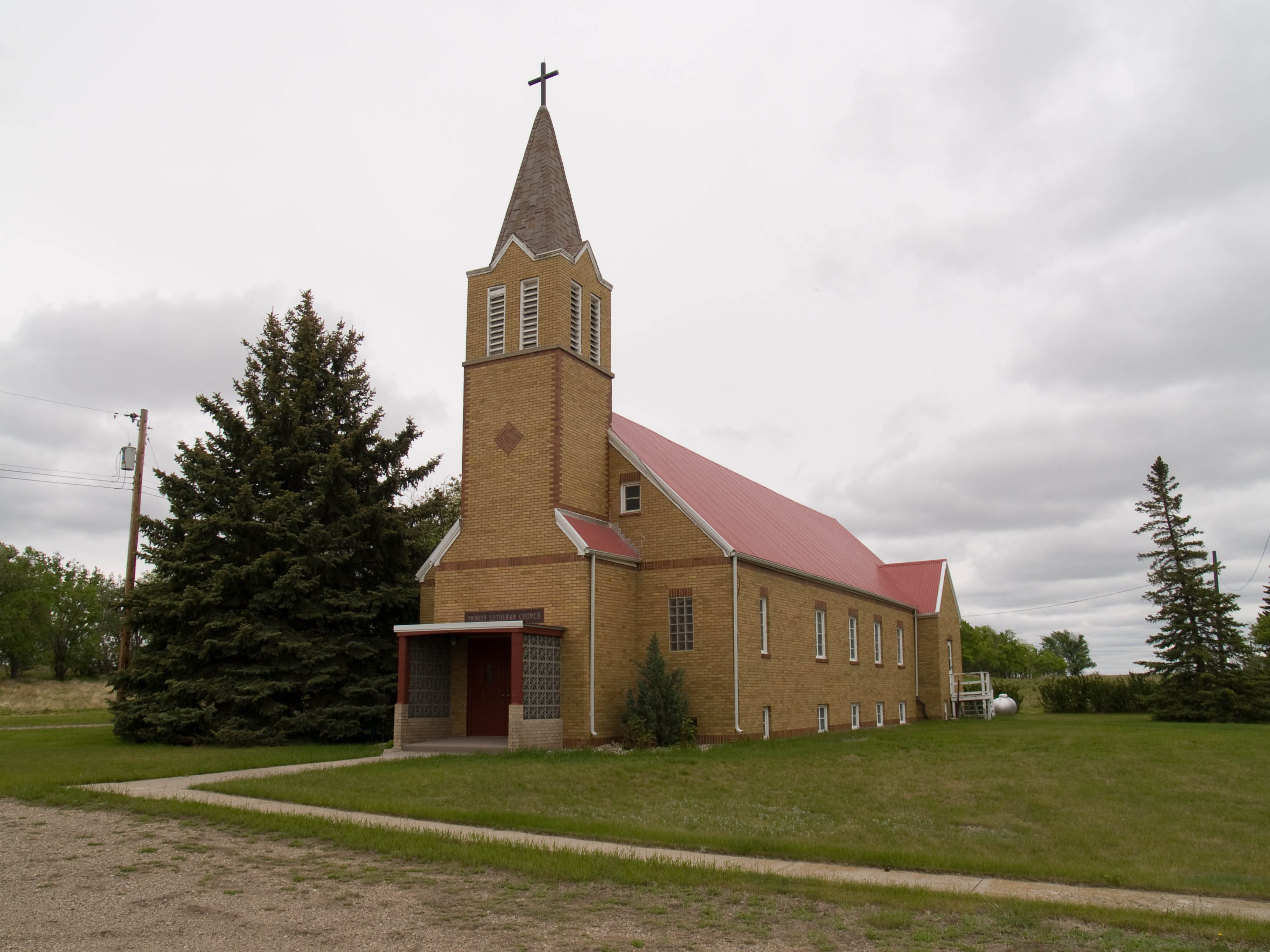 From